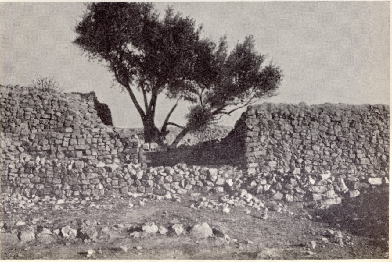 Olive-tree in al-Karak (Jordan), venerated as a sanctuary of Khidr. The picture was taken by Alois Musil (Arabia Petraea, p. 50).